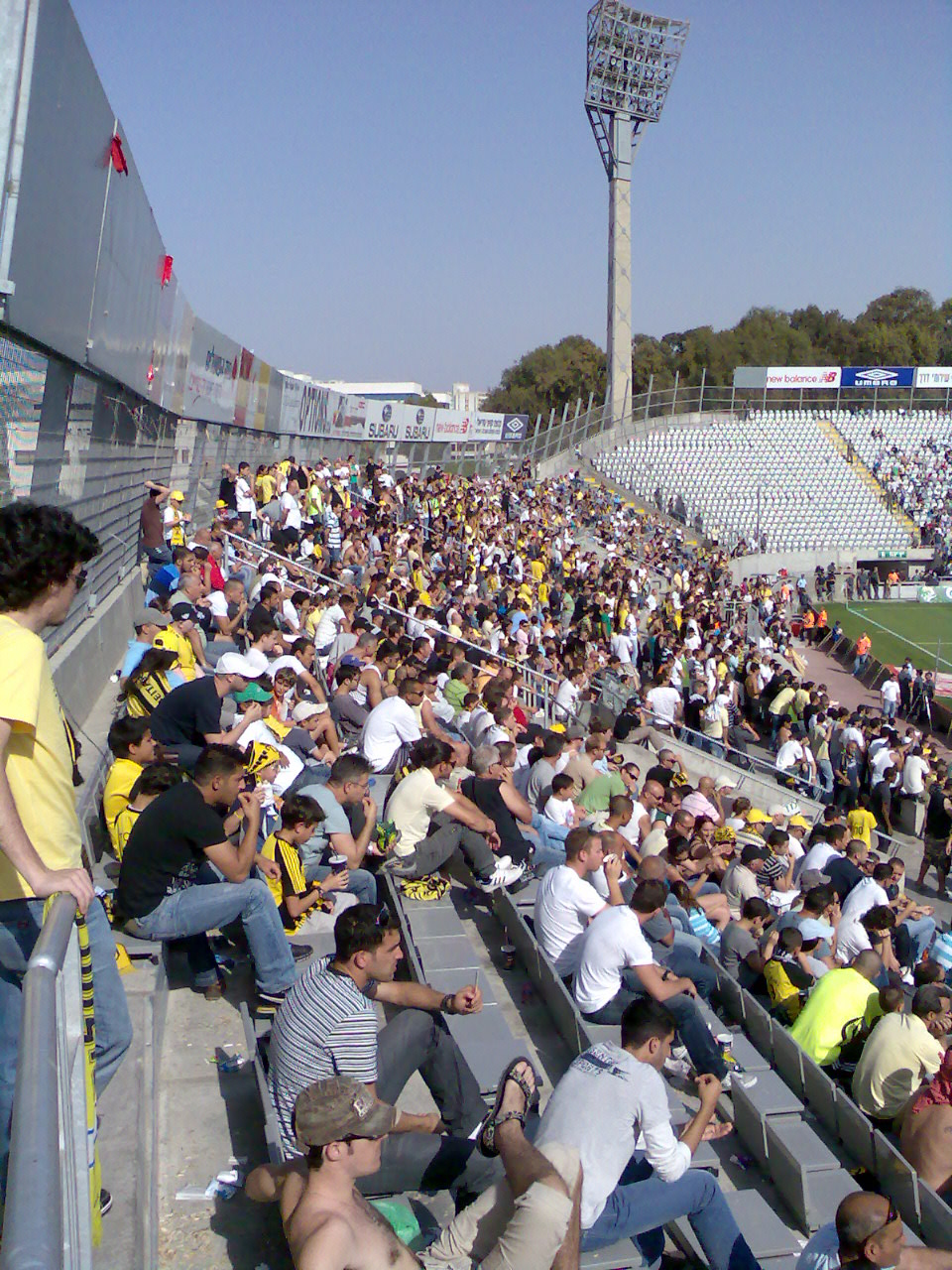 Maccabi Tel Aviv vs Beitar Jerusalem, Bloomfield Stadium